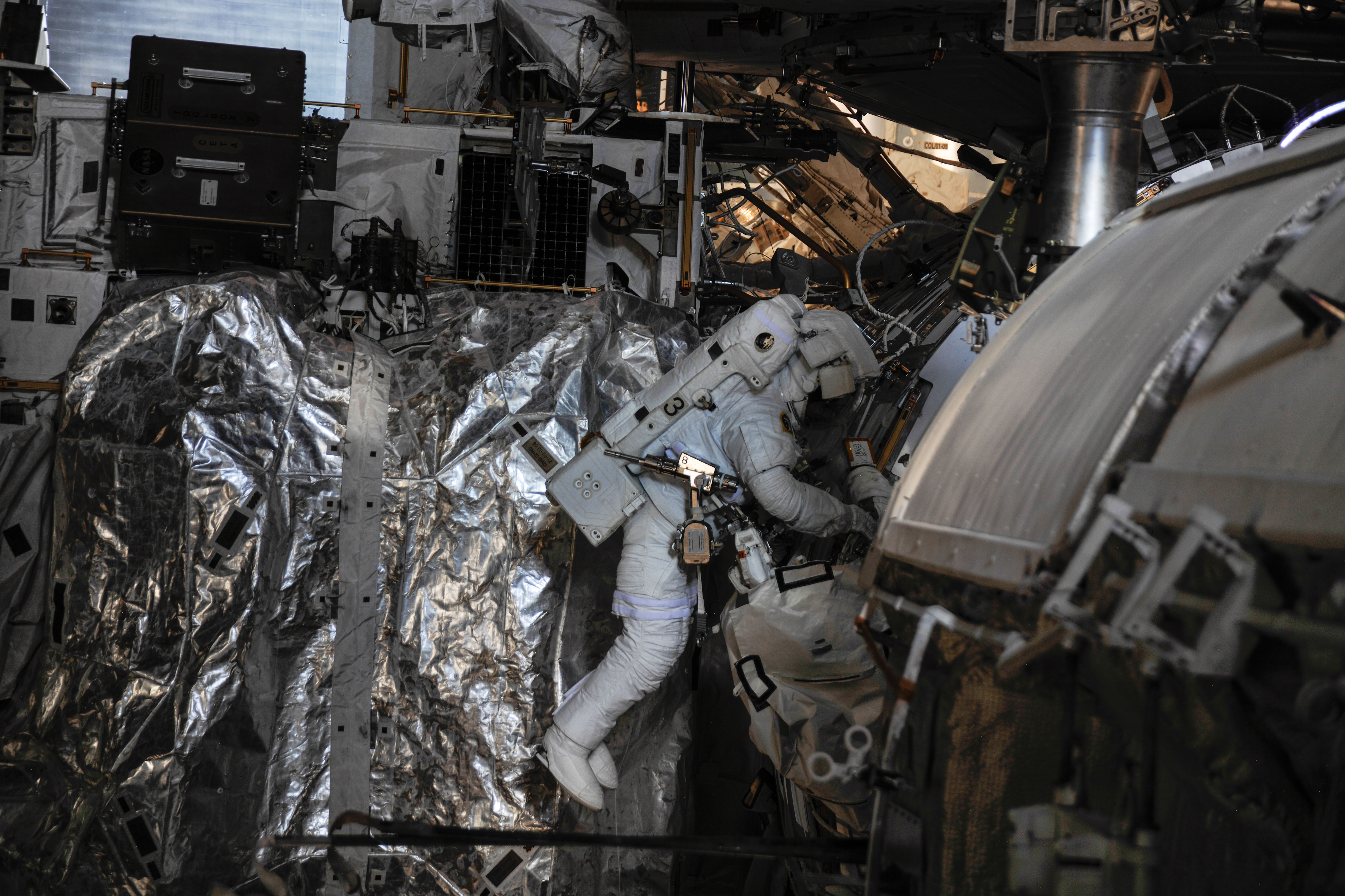 European Space Agency astronaut Luca Parmitano, Expedition 36 flight engineer, attired in an Extravehicular Mobility Unit (EMU) spacesuit, participates in a session of extravehicular activity (EVA) as work continues on the International Space Station. A little more than one hour into the spacewalk, Parmitano reported water floating behind his head inside his helmet. The water was not an immediate health hazard for Parmitano, but Mission Control decided to end the spacewalk early.